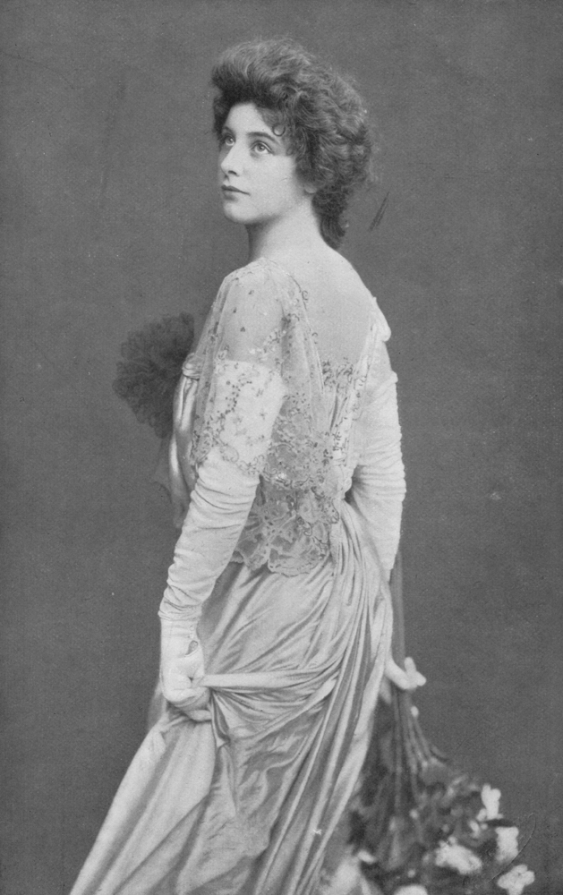 The American opera singer Geraldine Farrar (1882-1967) in 1902.